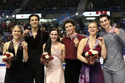 The ice dancing podium at the 2013 Skate Canada International. From left: Kaitlyn Weaver / Andrew Poje (2nd), Tessa Virtue / Scott Moir(1st), Madison Hubbell / Zachary Donohue (3rd).